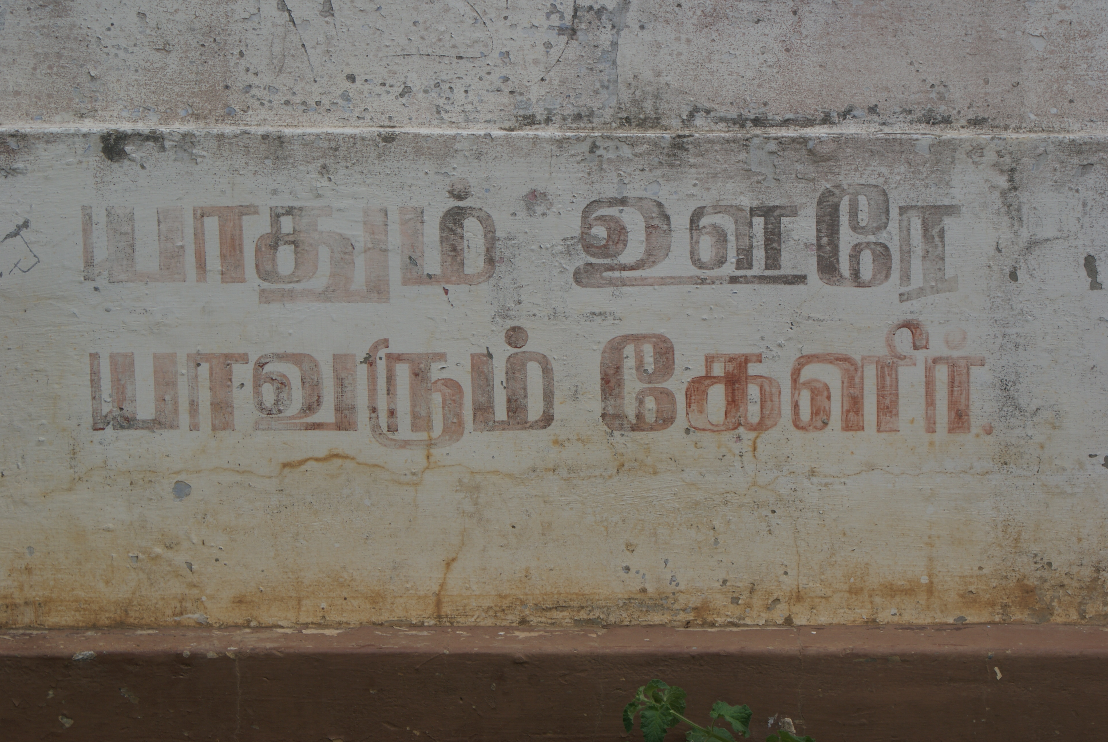 Detail of the memorial for the victims of the 1974 Tamil conference incident in Jaffna, Sri Lanka: Quote from the ancient Tamil work Purananuru 192: யாதும் ஊரே யாவரும் கேளிர் yātum ūrē yāvarum kēḷir ("Every town is a home town, every man is a kinsman").